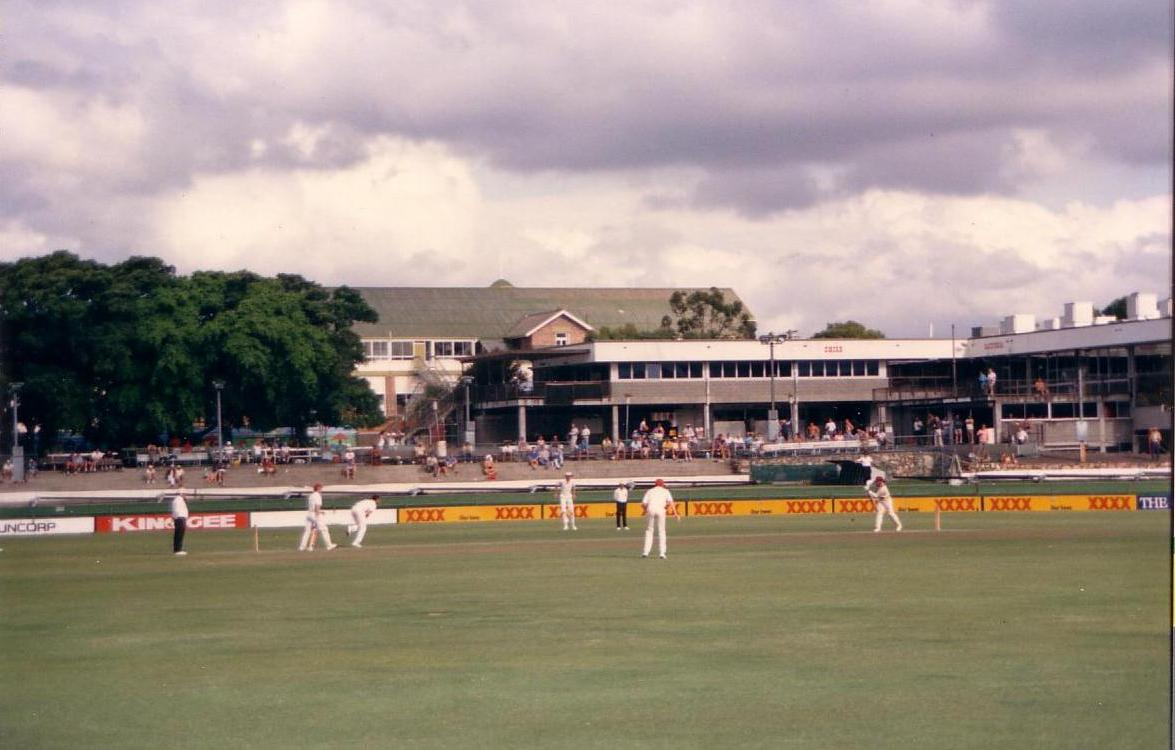 Queensland versus South Australia in a Sheffield Shield cricket match at the 'Gabba (photo taken during the mid-1980s)